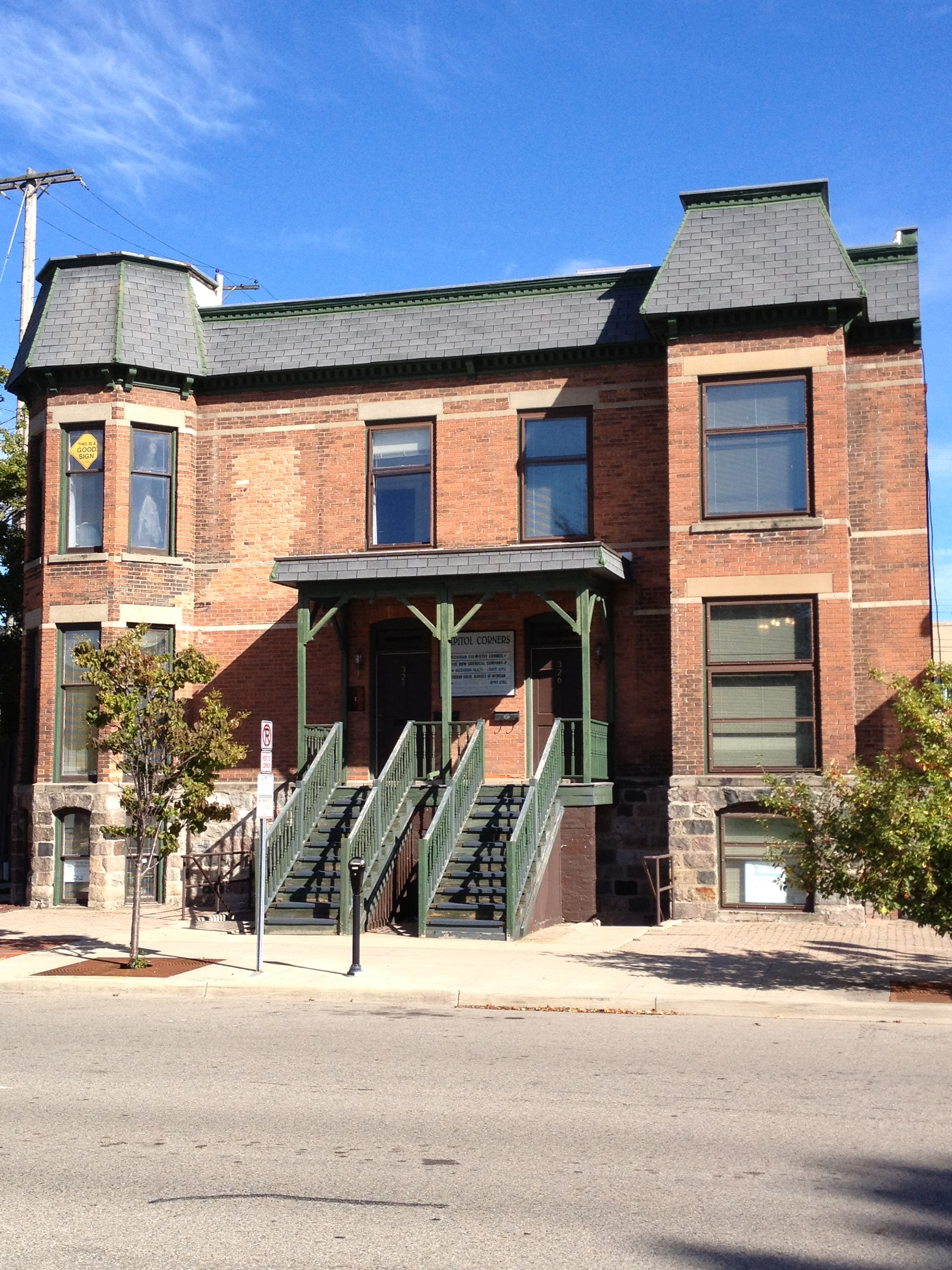 Emery Houses